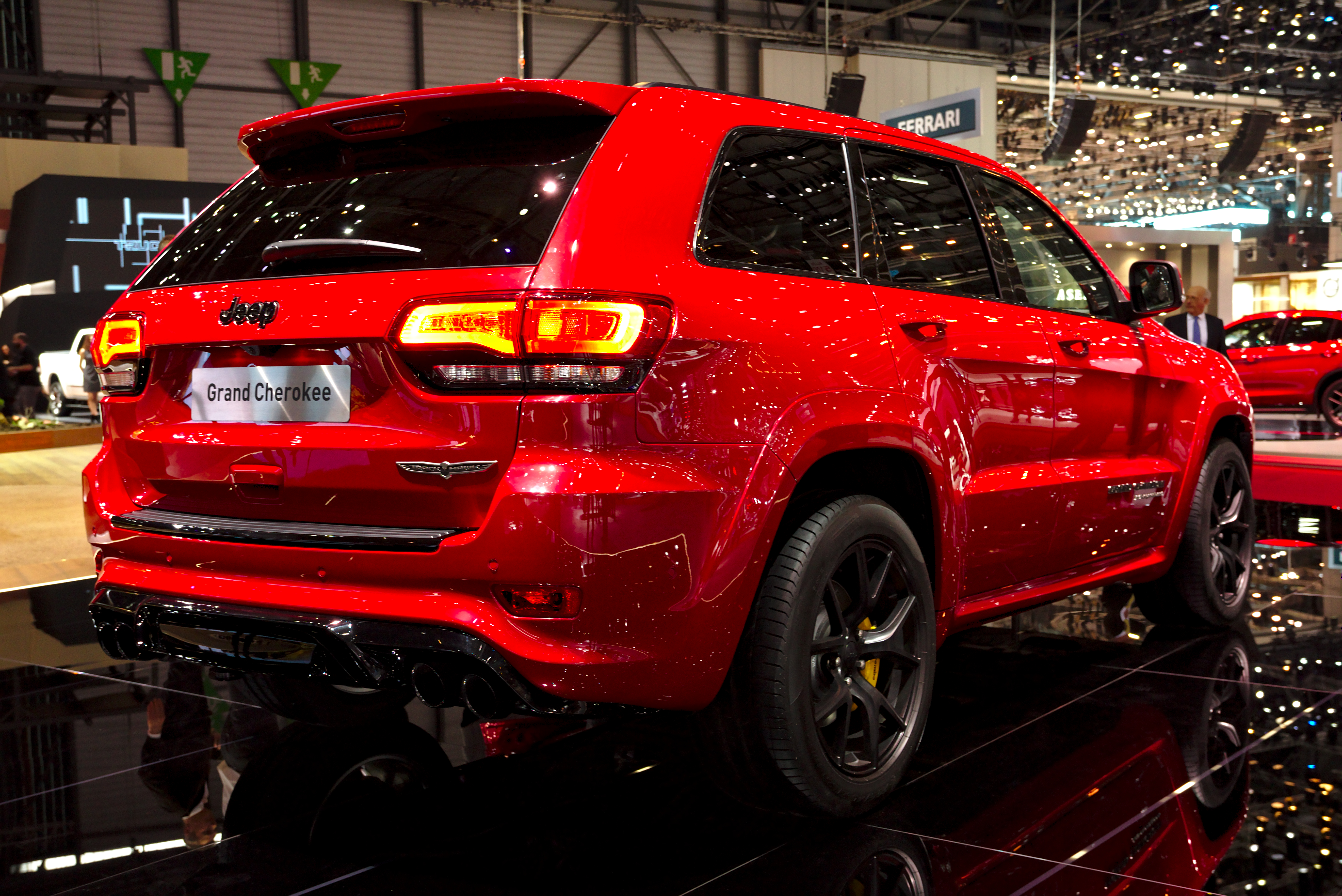 Jeep Grand Cherokee Trackhawk at Geneva Motorshow 2018